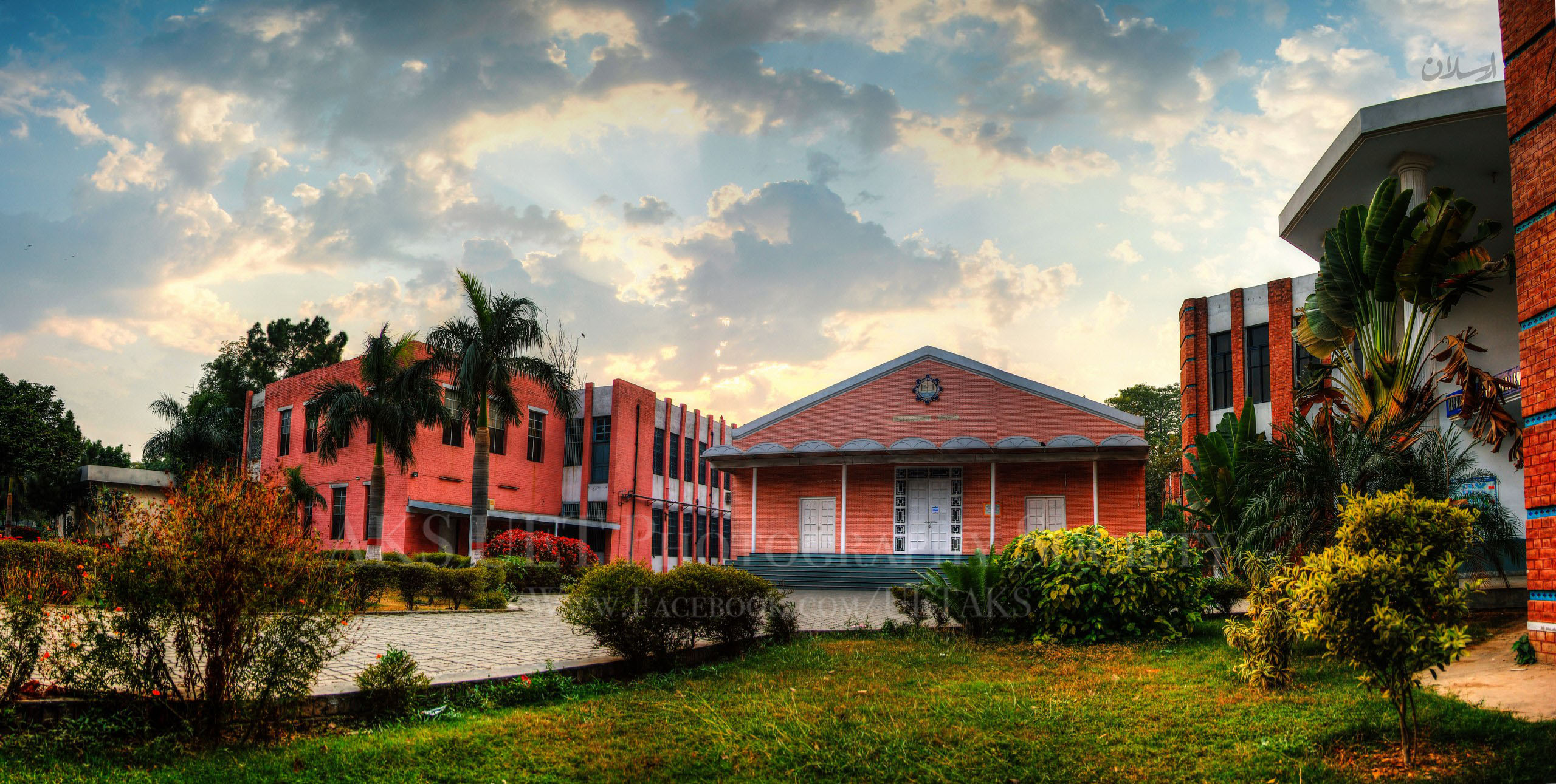 Chemical Dept. UET Lahore